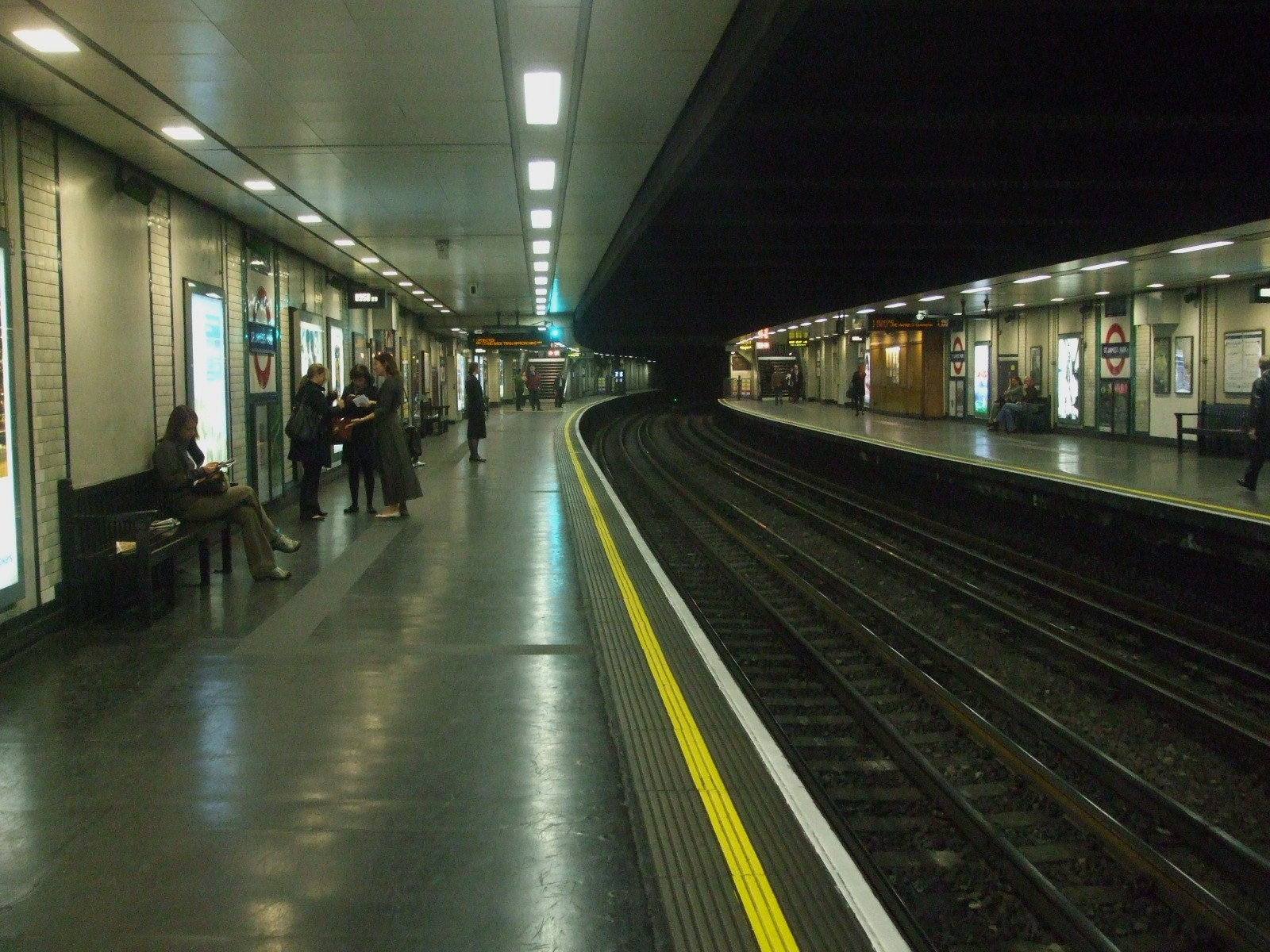 St James's Park tube station looking anticlockwise/eastwards